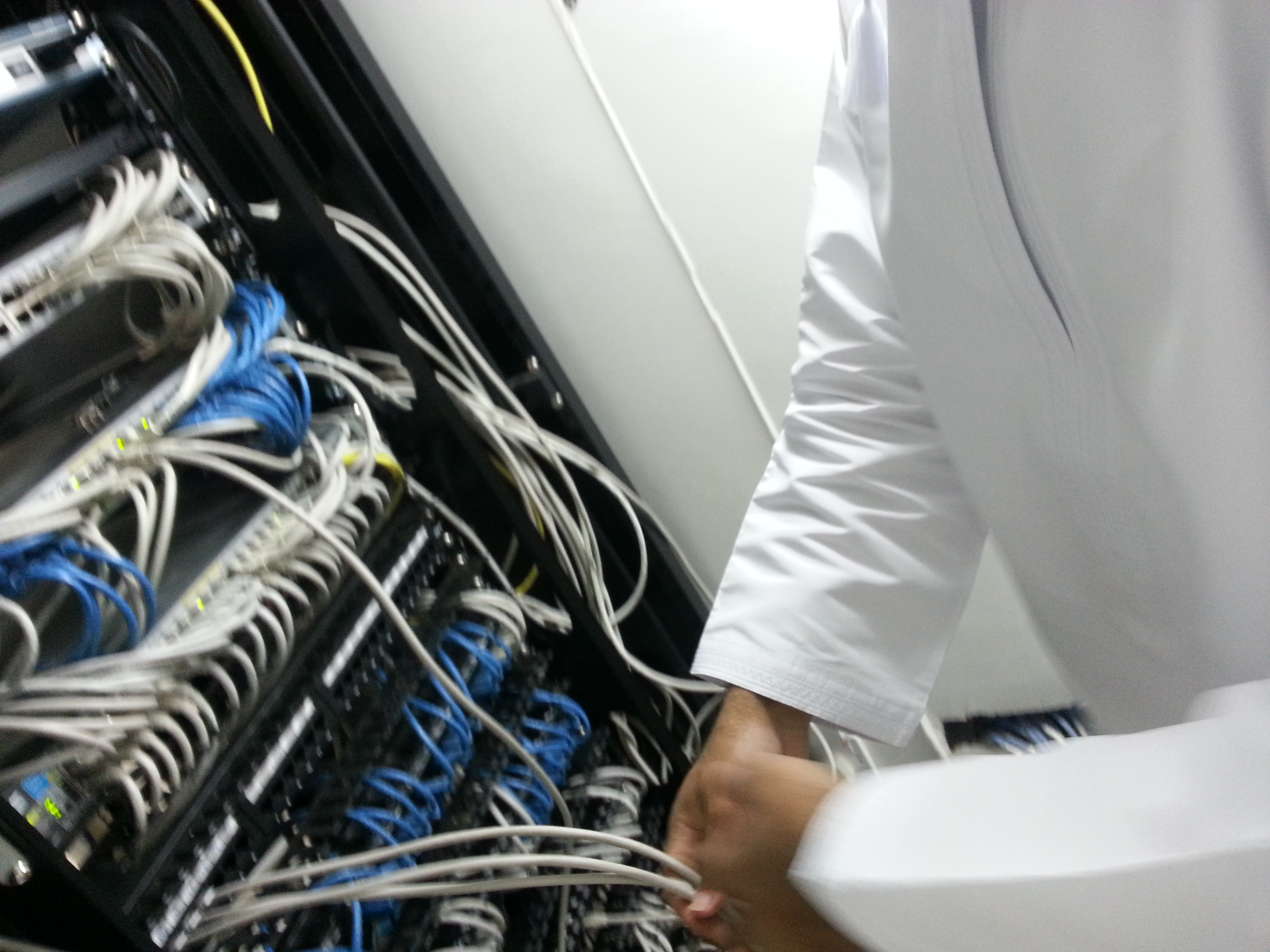 الشبكات عصب تتقنية المعلومات